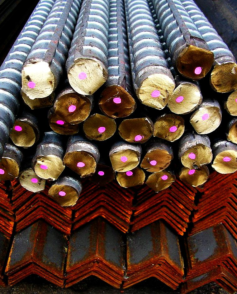 Steel rebars for arming concrete (top) and metal shingles (bottom).